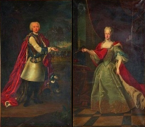 (1) Portrait of Frederick IV Christian of Saxony (1722-1763), prince elector of Saxony in 1763 (2 months). Son of King August III of Poland, i.e. of prince electo Frederick II August of Saxony and of Maria Josepha of Austria. (2) Maria Josepha of Austria (1699-1757), queen consort of Poland, wife of Frederic II August of Saxony (i.e of King August III of Poland), mother of Frederick IV Christian of Saxony.